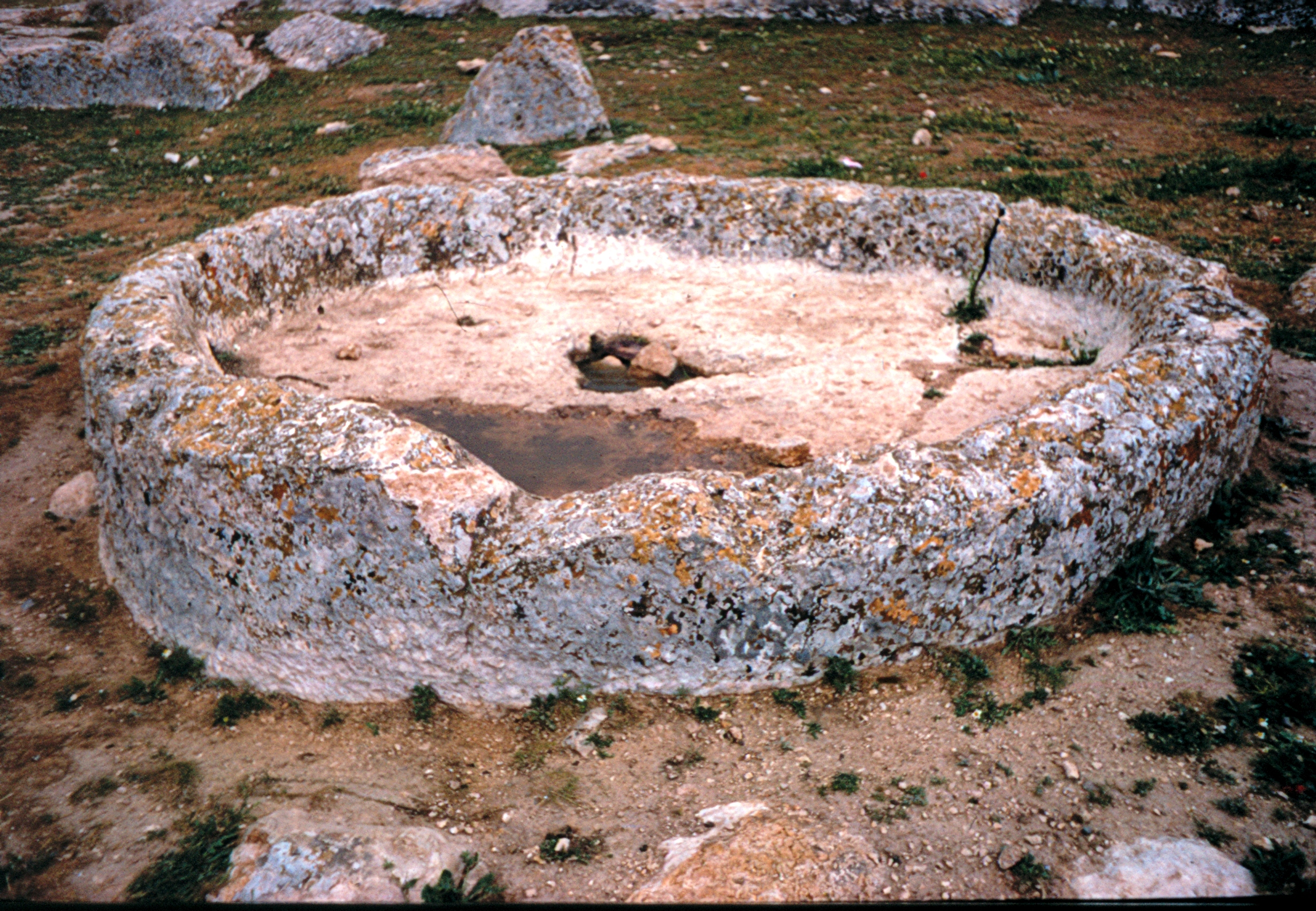 old Olive oil extraction Hirbat sumek